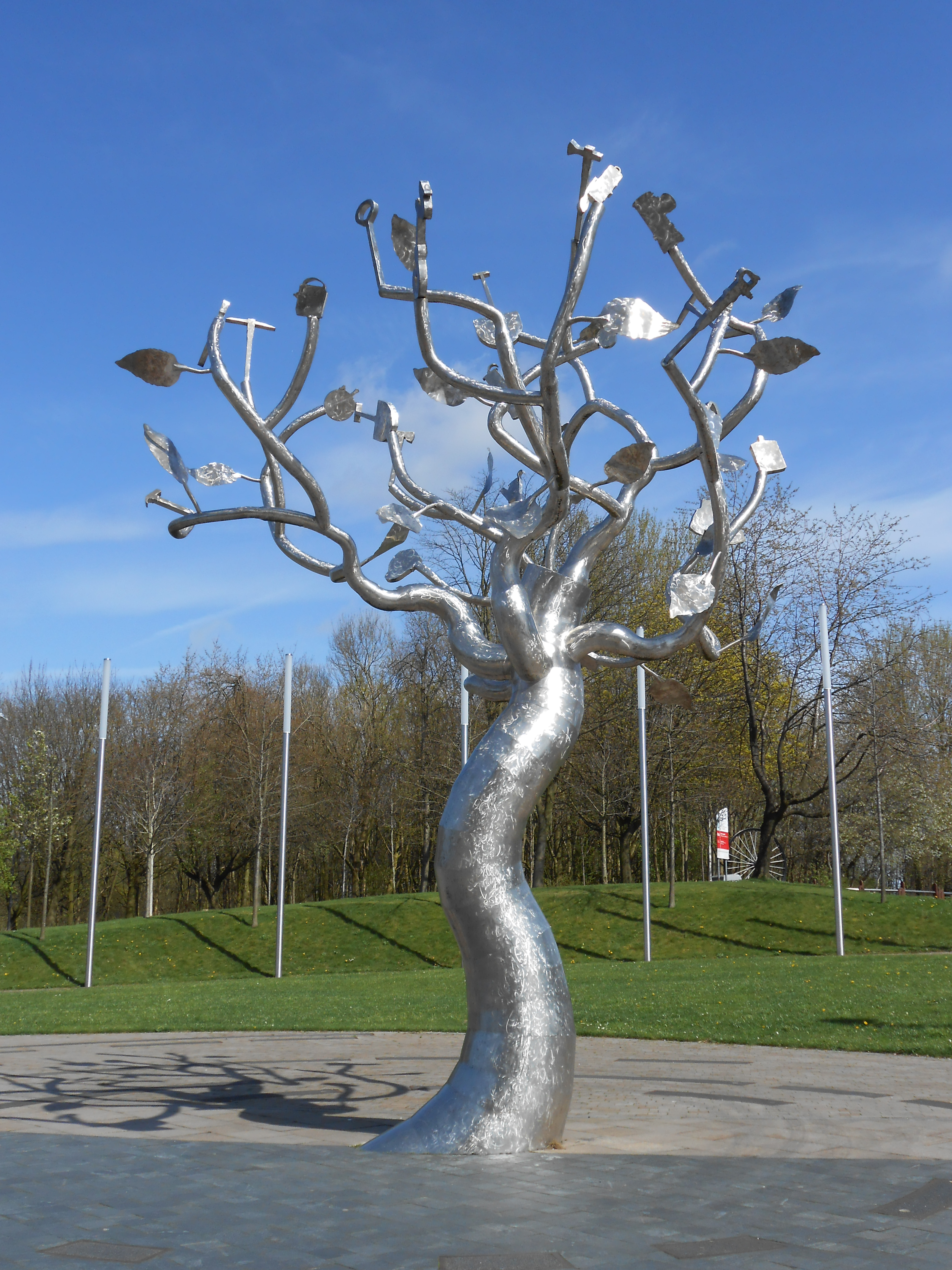 Silver tree, Central Forest Park, Stoke-on-Trent.